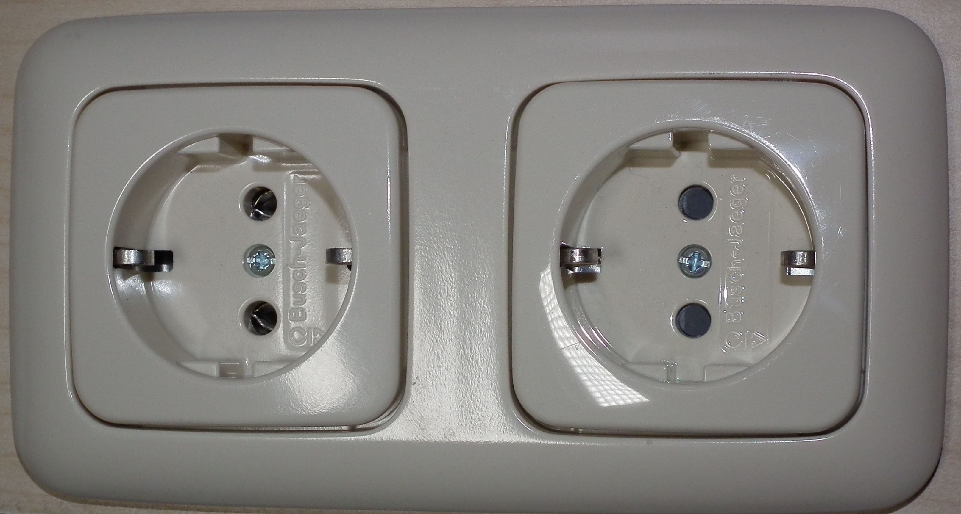 Photo of two Schuko (CEE 7-3) socket-outlets manufactured by Busch-Jaeger Elektro GmbH, RH has protective shutters, LH does not.